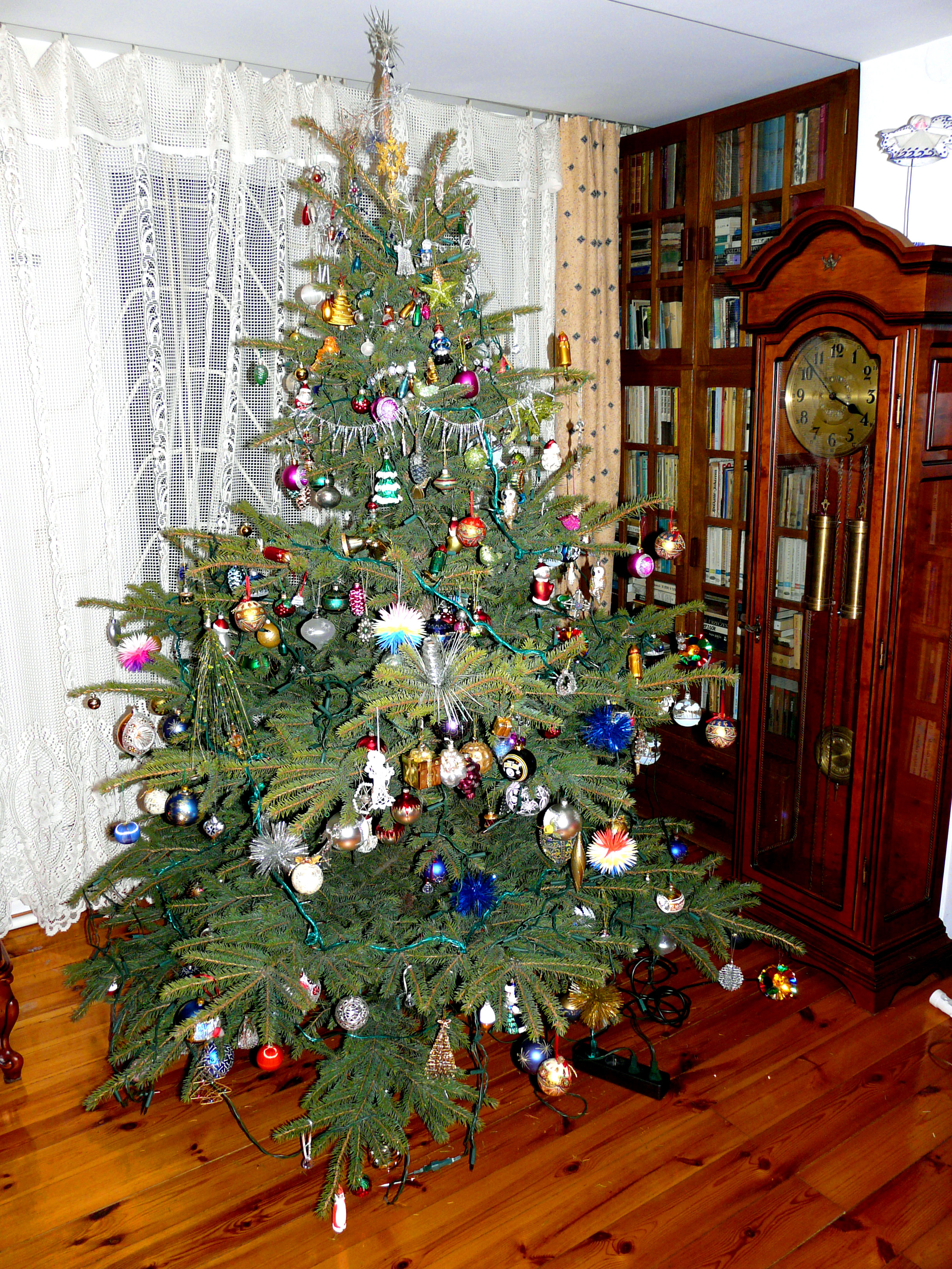 XMAS 2008 With ornaments